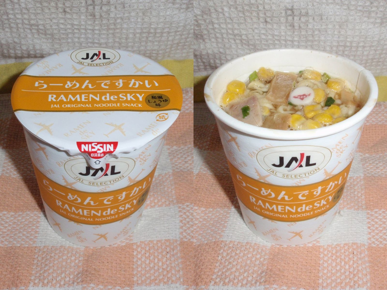 RAMEN de SKY